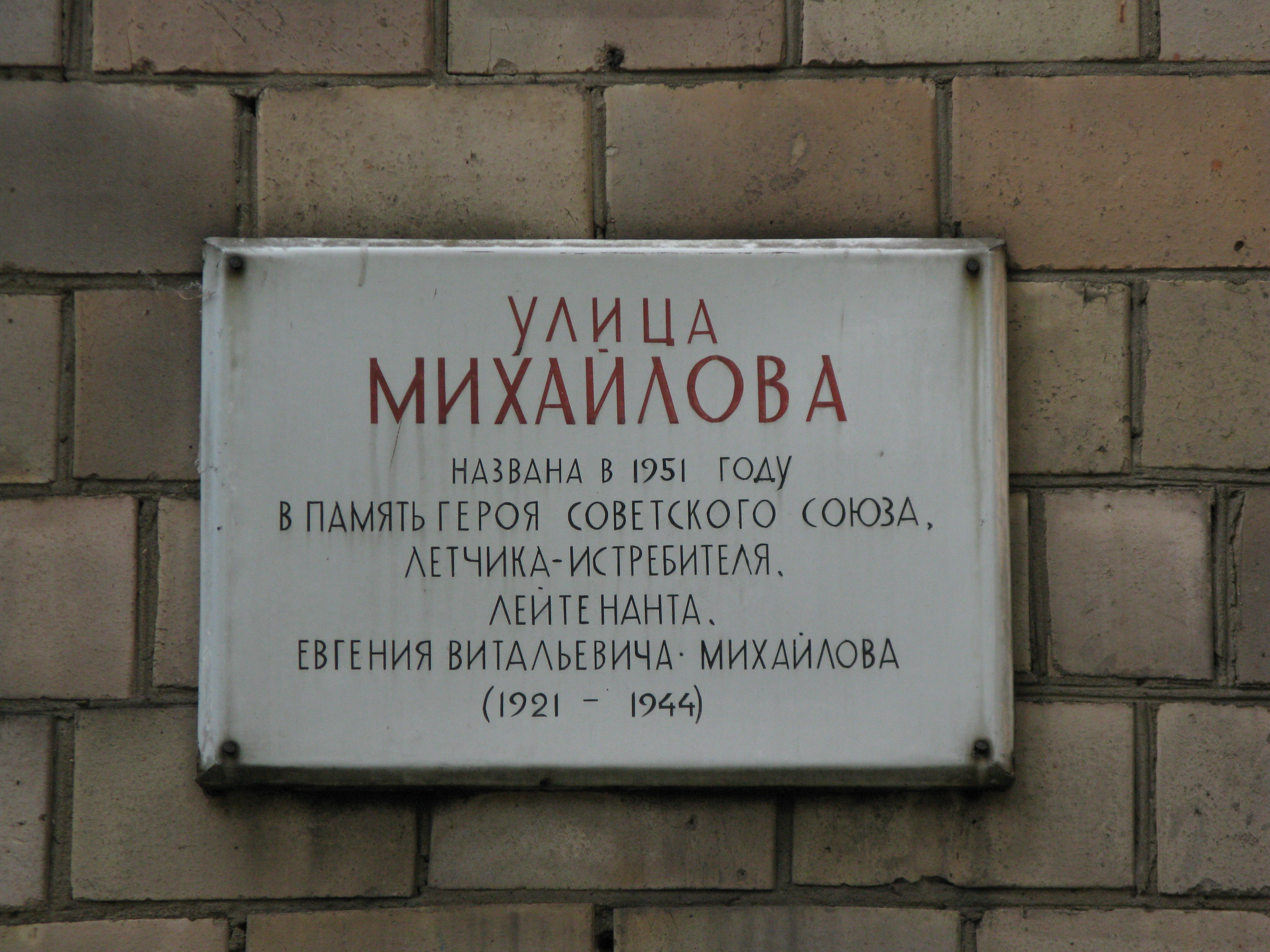 Memorial tablet devoted to Hero of Soviet Union E. V. Mikhailov, Mikhailov street 8/5, Moscow